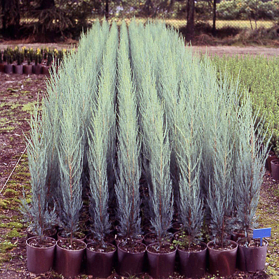 Juniperus virginiana 'Skyrocket'